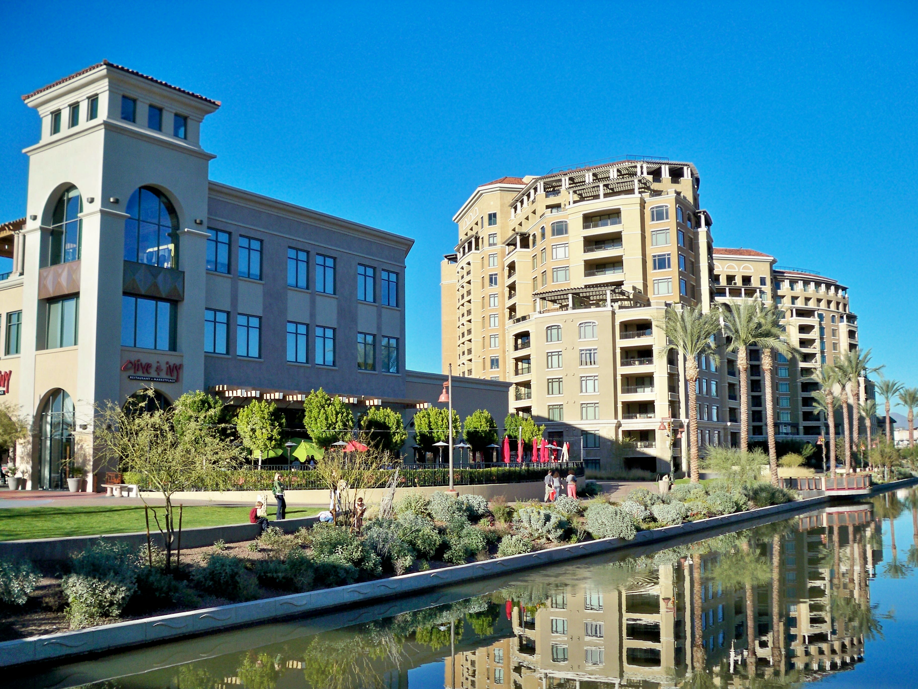 View of the Scottsdale Waterfront on a clear December day. Photo taken from the new pedestrian bridge connecting the Marshall Way shops with the Fifth Avenue arts district.